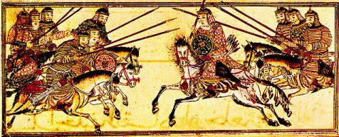 Mongol heavy cavalry in a battle. XIII—XIV century